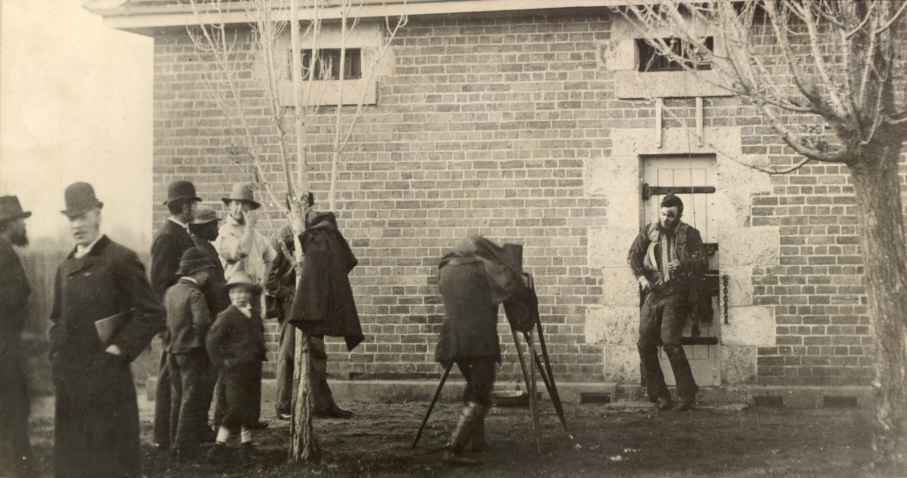 Bushranger and Kelly Gang member Joe Byrne's body propped up against the wall of the Benalla Police Station.